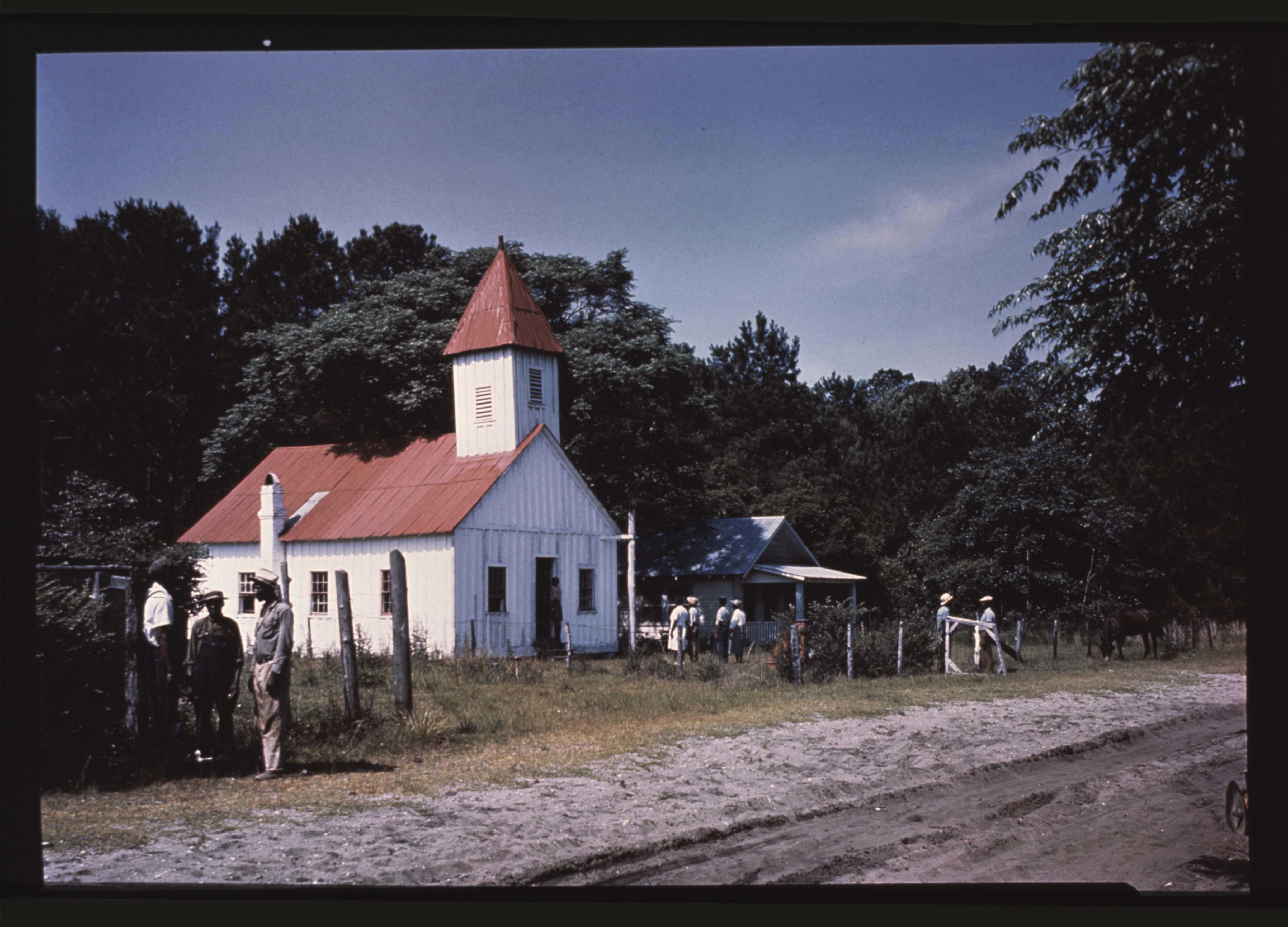 Bernard M. Baruch, Negro quarters, with church, Hobcaw Plantation, residence in (Georgetown County, South Carolina) 5a31128r - cropped Fairfield Church LC-G602-CT-[033] This image is available from the United States Library of Congress's Prints and Photographs division under the digital ID gsc 5a31128r.This tag does not indicate the copyright status of the attached work. A normal copyright tag is still required. See Commons:Licensing for more information.